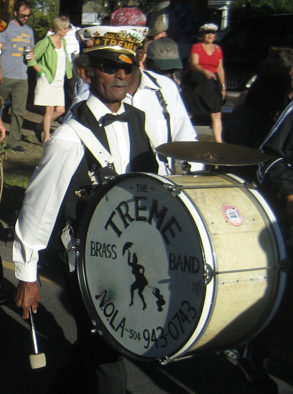 Word is that some $#%@ stole Uncle Lionel Batiste's bass drum. If you see it, report it. Call the phone number on the drum, (504) 943-0743. Update The drum was dropped off at the Palm Court Jazz Cafe, and Uncle Lionel is happy! Yay!